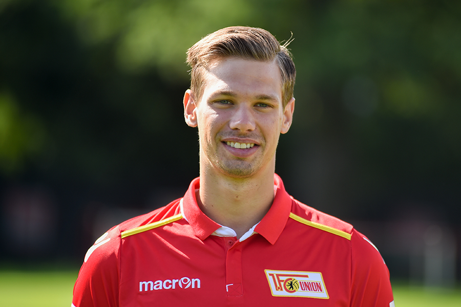 Teamfoto 2016/17